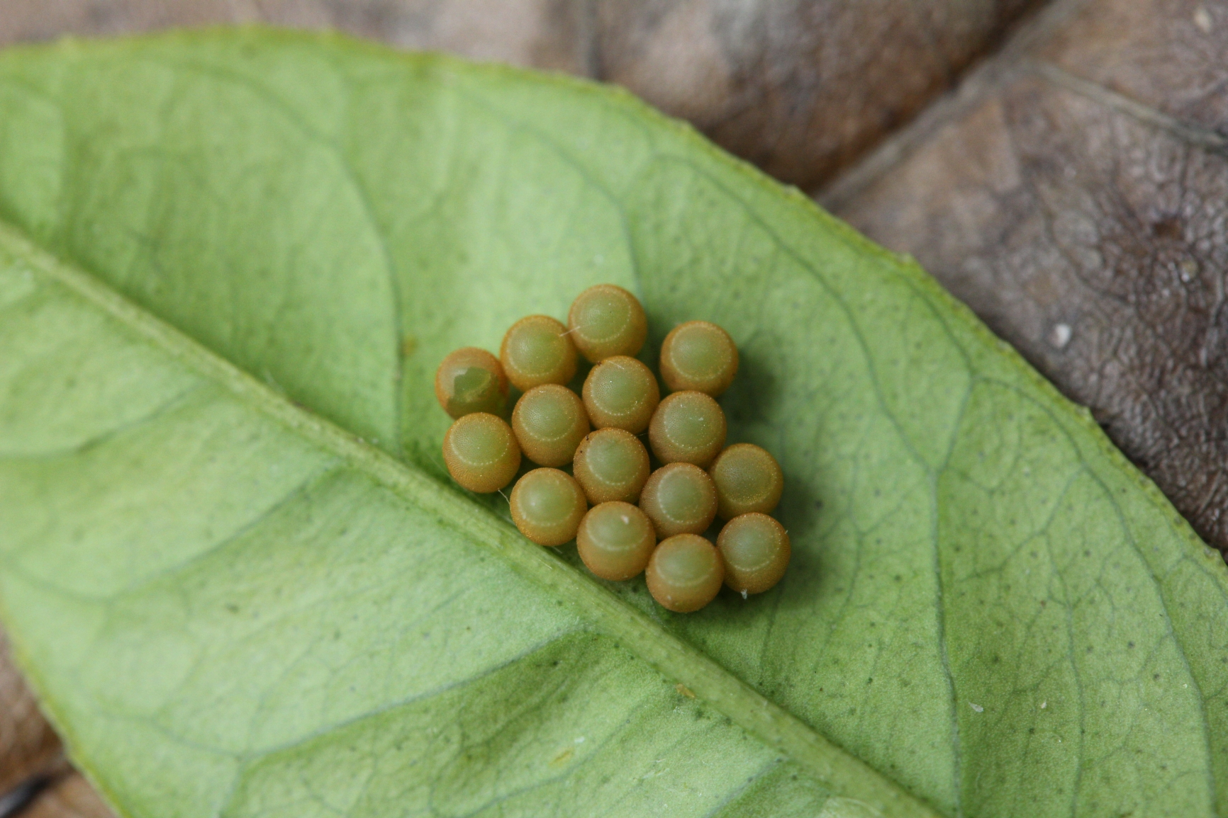 Glaucias amyoti eggs (Australasian green shield bug)